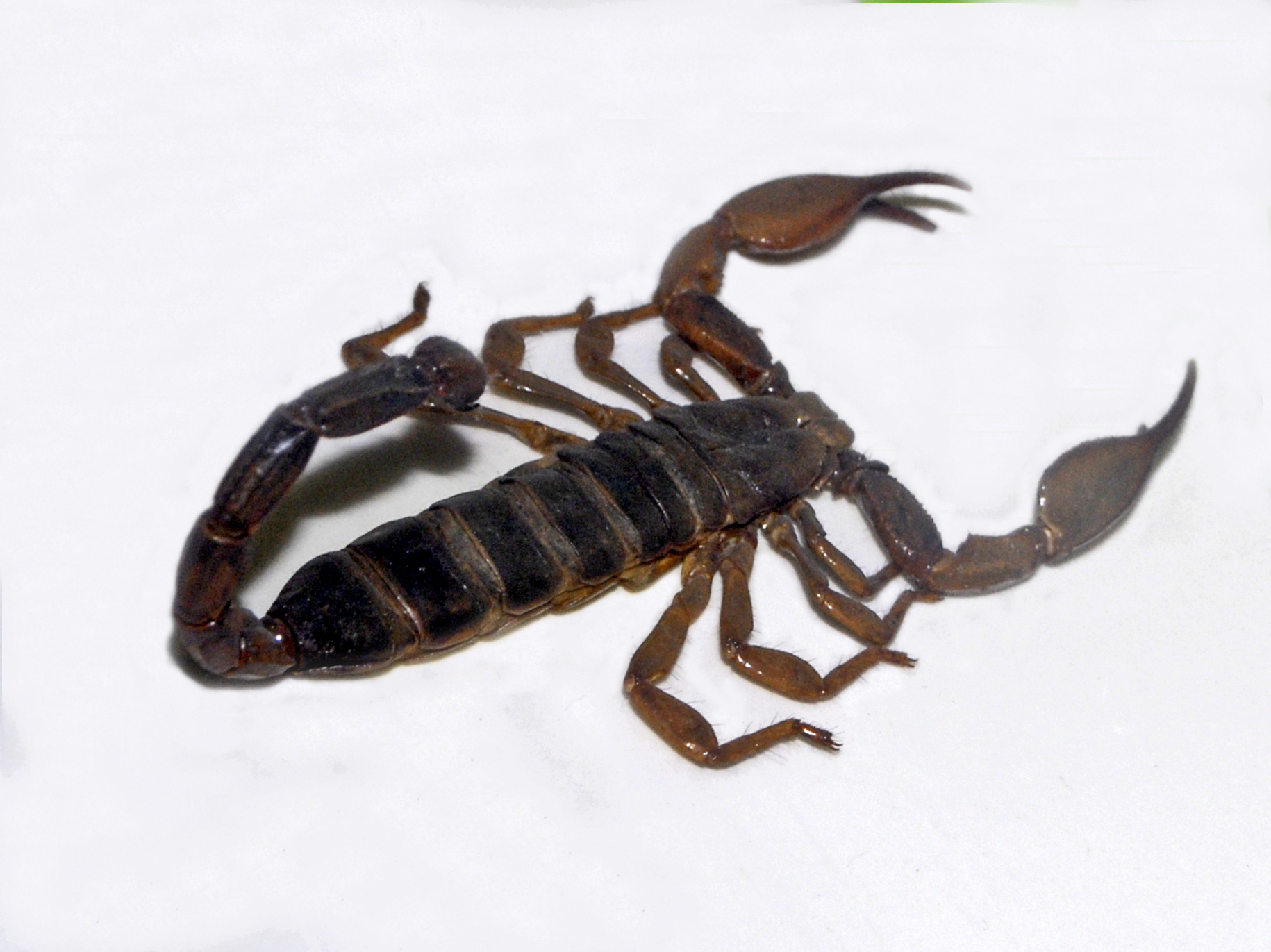 Museum specimen of Nebo hierichonticus from Israel. On display at Museo Civico di Storia Naturale di Milano